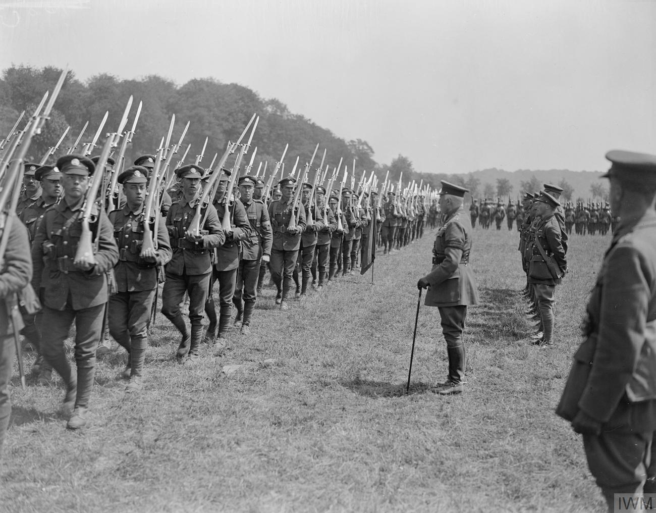 The Official Visits To the Western Front, 1914-1918 Troops of the 1st Battalion, Northamptonshire Regiment marching past Prince Arthur, the Duke of Connaught, at his inspection of the 2nd Brigade. Near Bruay, 1st July 1918.